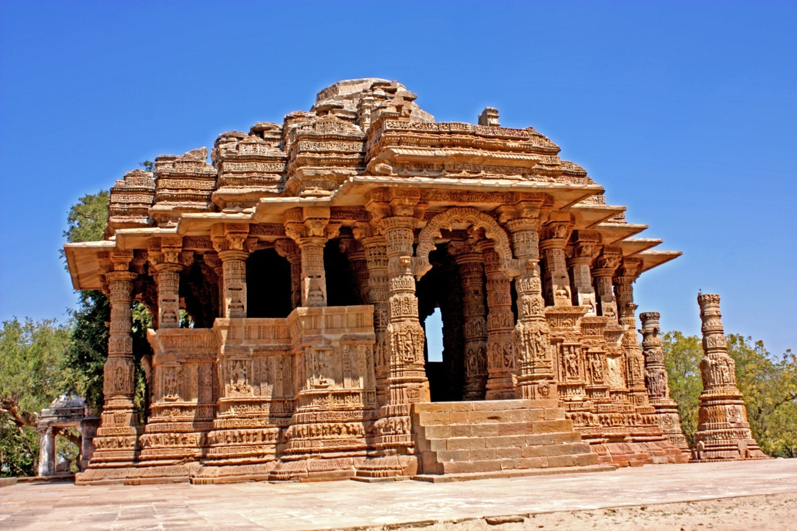 Surya Temple